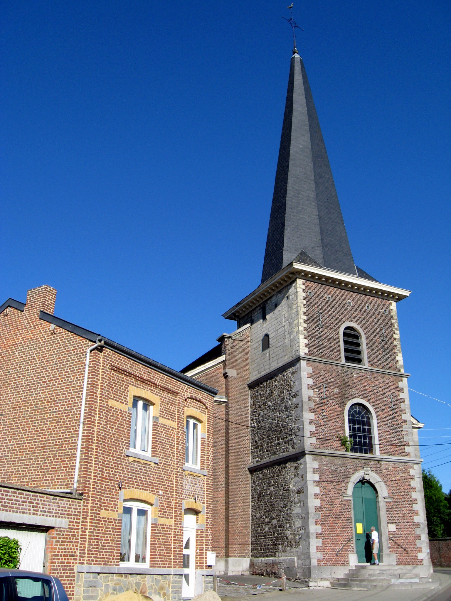 Church of Saint Simeon in Houtain-Saint-Siméon, Oupeye, Liège, Belgium